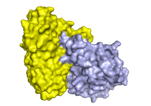 Created by User:Bstlee using Pymol.